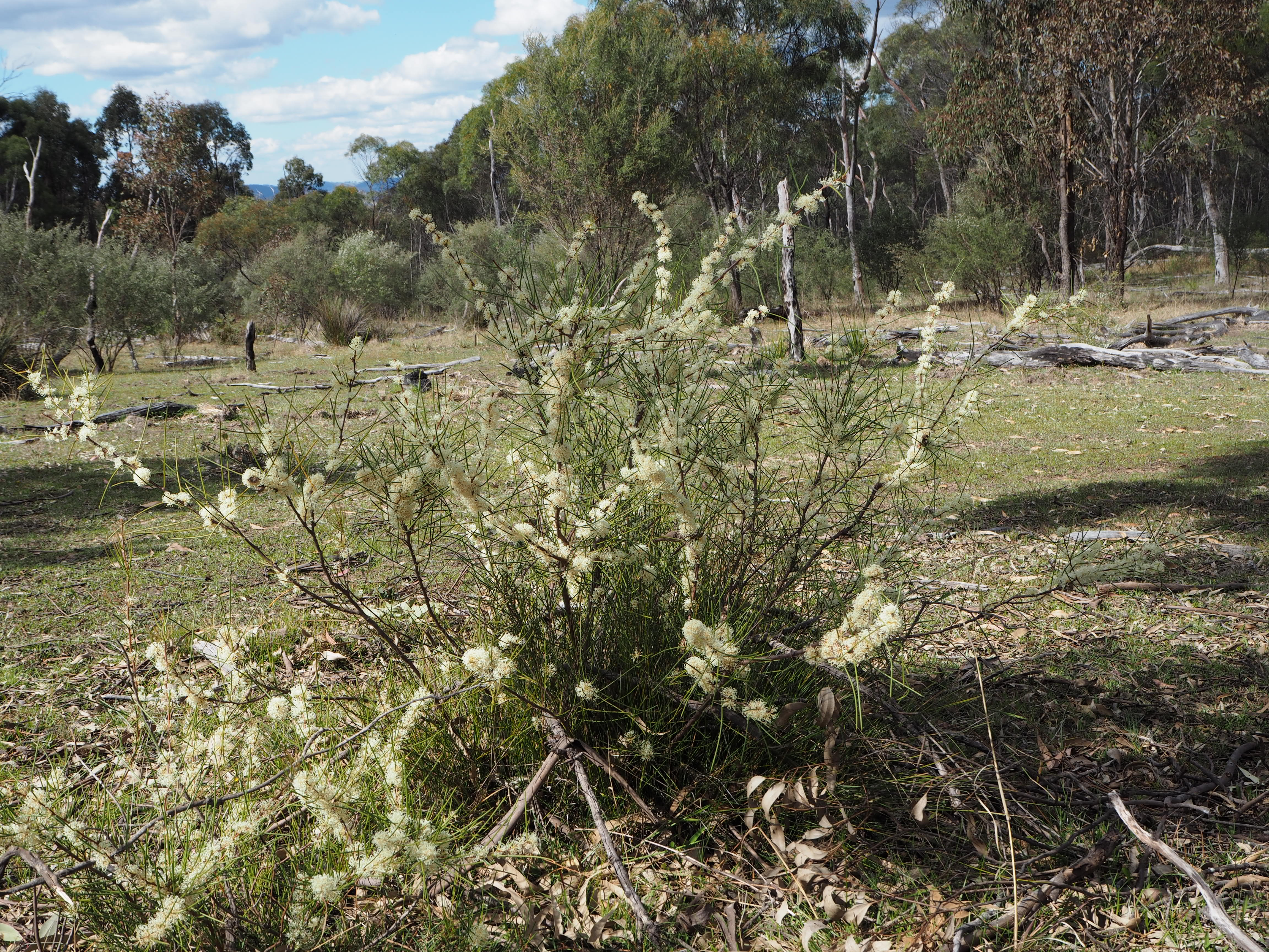 Hakea microcarpa growing in the Bolivia Hill Nature Reserve south of Tenterfield